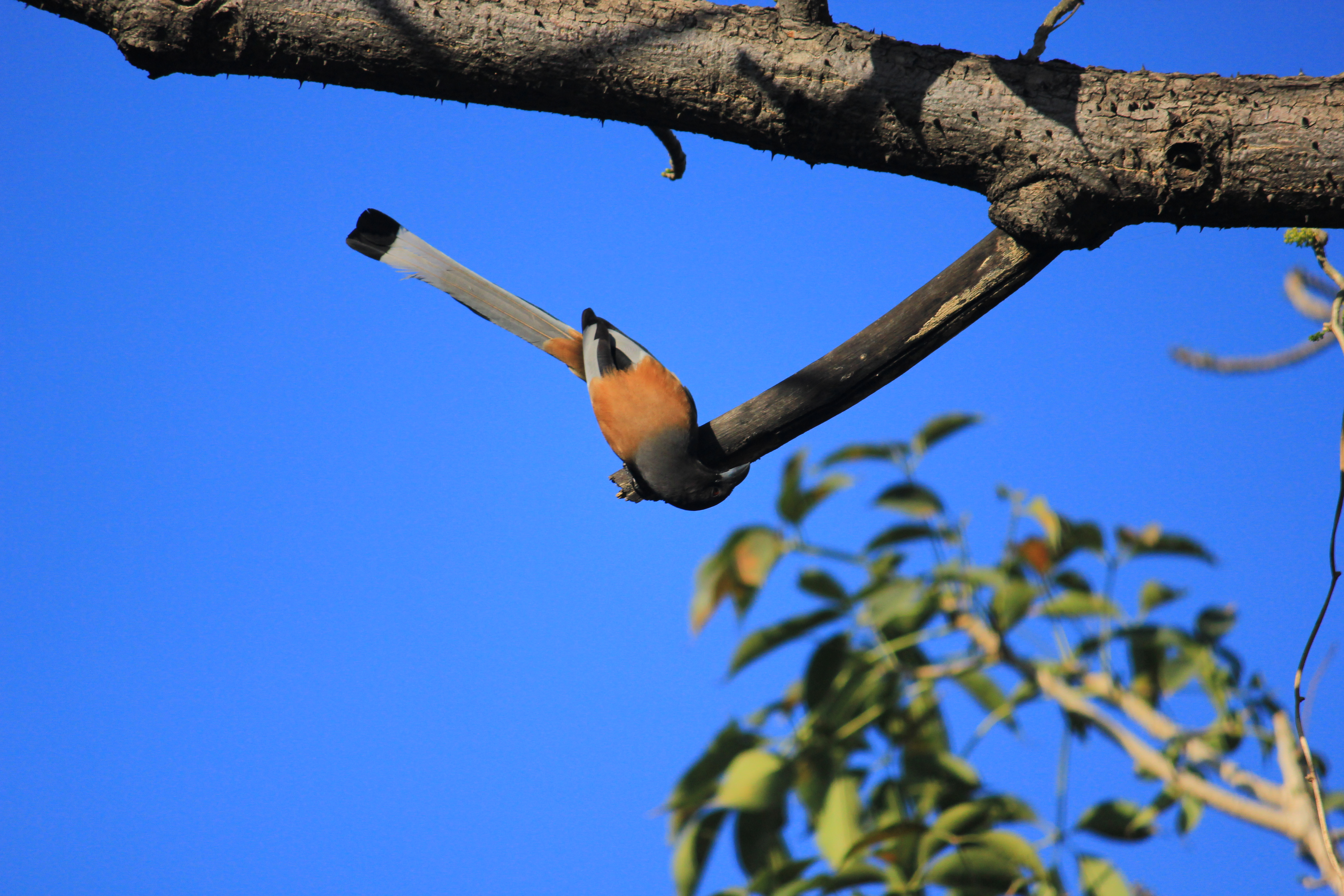 at vnit,nagpur